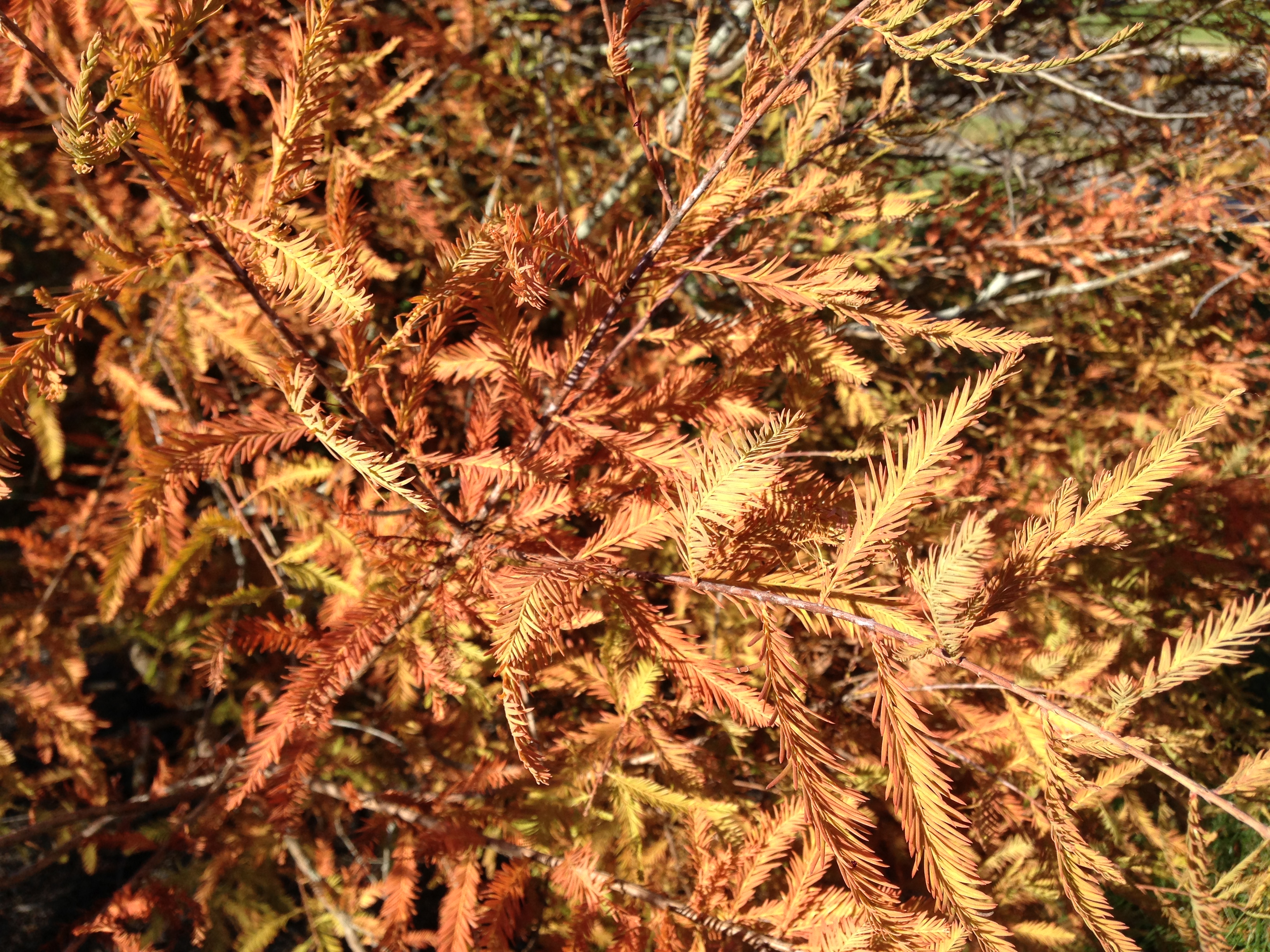 Bald Cypress foliage during autumn along Hunters Ridge Drive in Hopewell Township, New Jersey